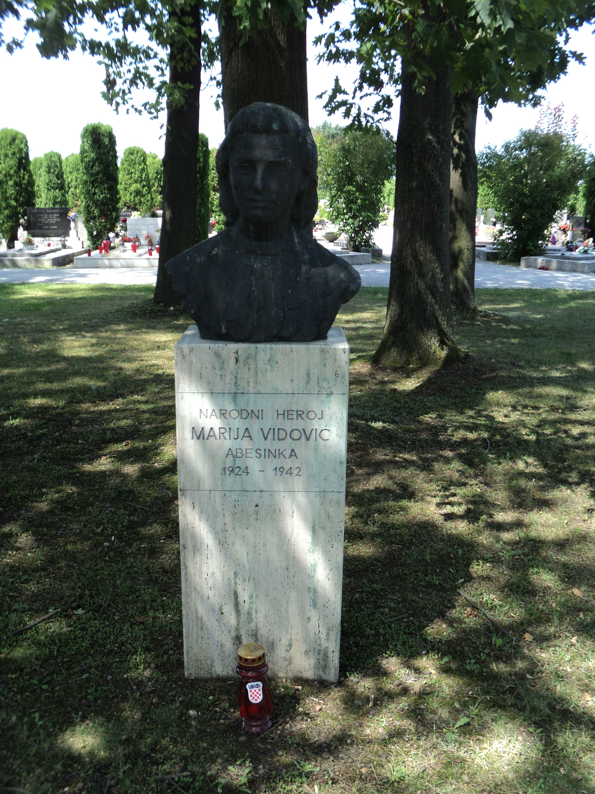 Bust of People's hero Marija Vidović in Varaždin cemetery.